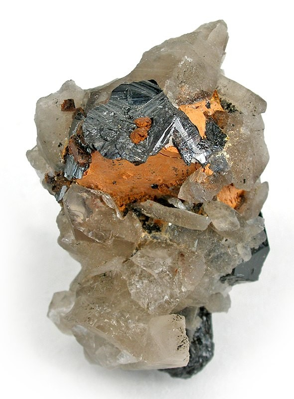 Ilmenite, Cassiterite, Quartz (Var.: Smoky Quartz) Locality: Erongo Mountain, Usakos and Omaruru Districts, Erongo Region, Namibia (Locality at ) This specimen features a 3 x 3 x 1 cm ilmenite nearly embedded in the quartz matrix. On its edges are perched SHARP cassiterite crystals to 1.25 cm. Some show twinning, I think. This is a MOST UNUSUAL association! I cannot recall seeing it from any other locality, before. It is the only such ilmenite we have, with epitaxial cassiterite association. 5.6 x 3.5 x 3.1 cm